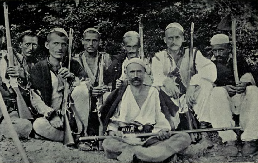 Armed Albanian men, 1906.